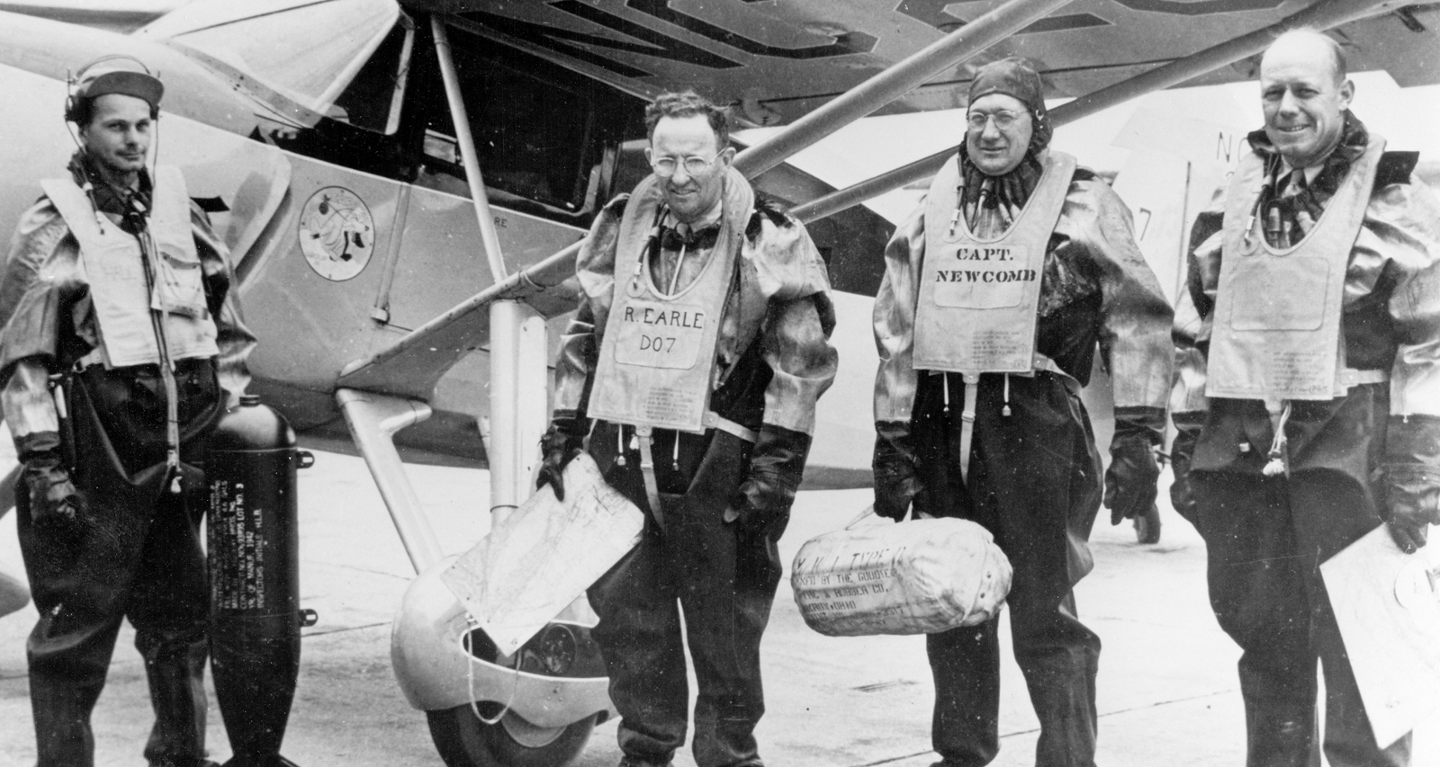 Some of the members of the Civil Air Patrol's "Subchaser" Corps. These were civilian pilots tasked with patrolling the eastern U.S. coastline during World War II watching for German submarines.